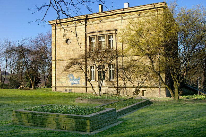 Lohmann Villa Park in the city of Witten. Side view. In the foreground: the fountain of the former city parks. Recorded on 14 March 2007. In the house as a protected monument is now the Witten registry office.